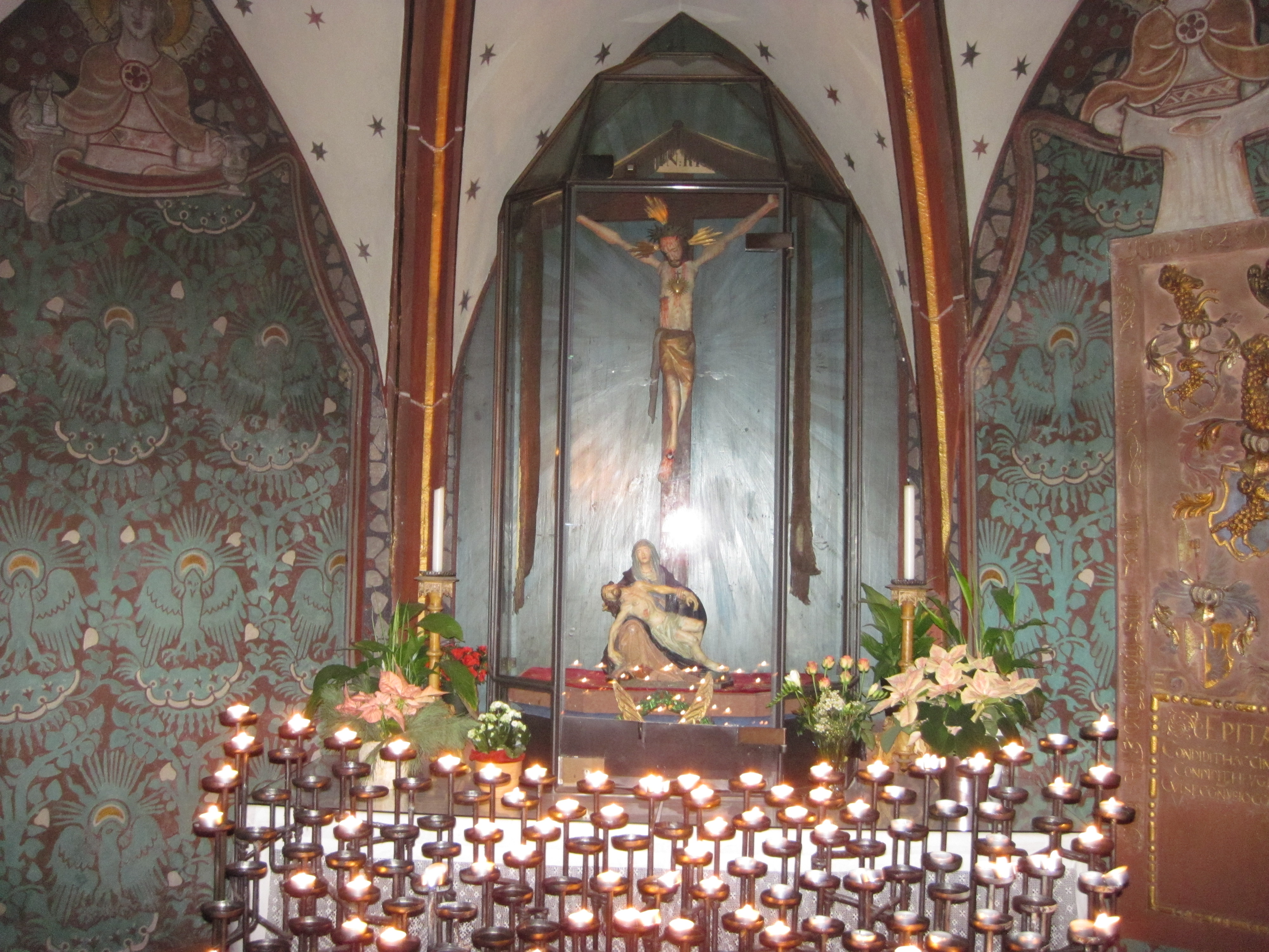 Nägelinskreuz in VS-Villingen, Germany.